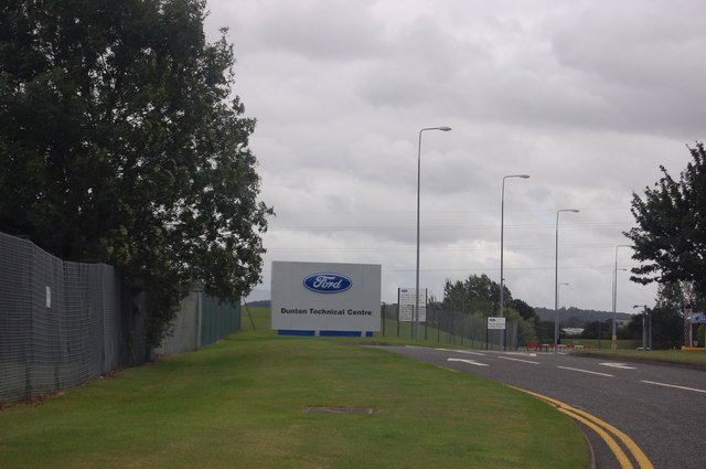 Approach Road to Ford's Dunton Ford's plant at Dunton is for research and development. This is the road approaching the entrance.